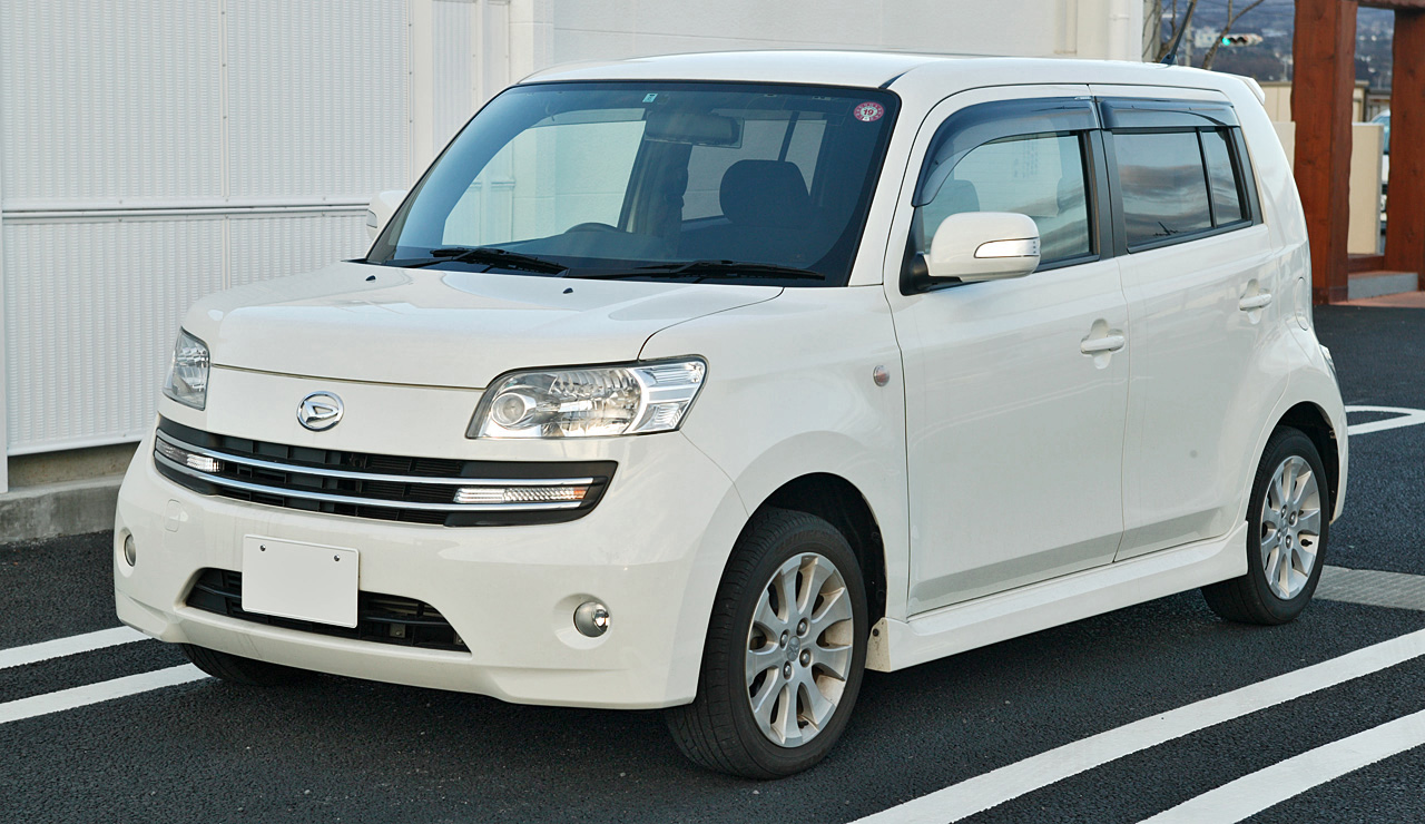 Daihatsu Coo